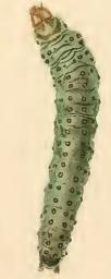 Stainton’s Natural History of the Tineina (1855–1873): Exaeretia allisella